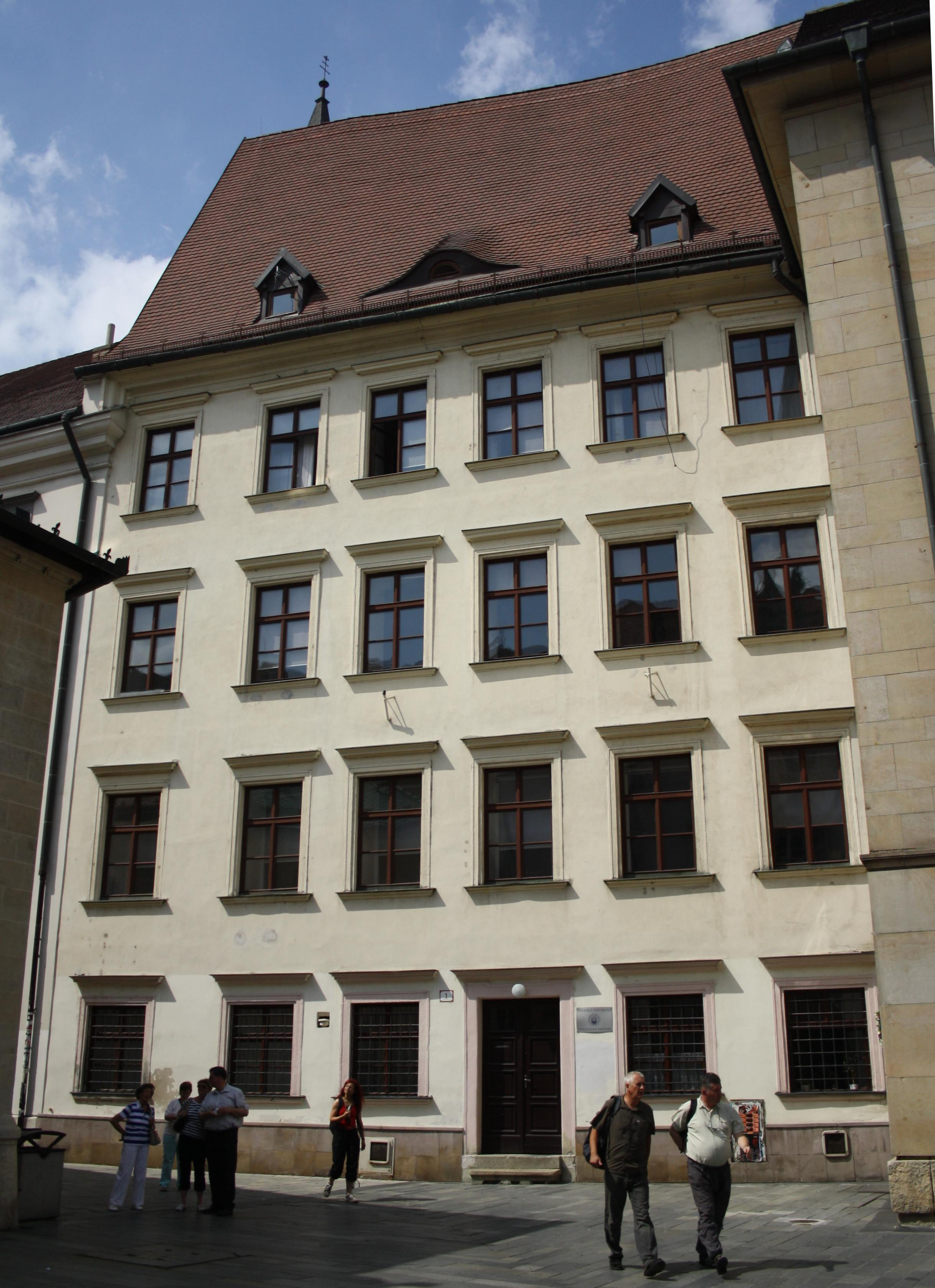 Theological faculty of Trnavská univerzita v Trnave in Bratislava.